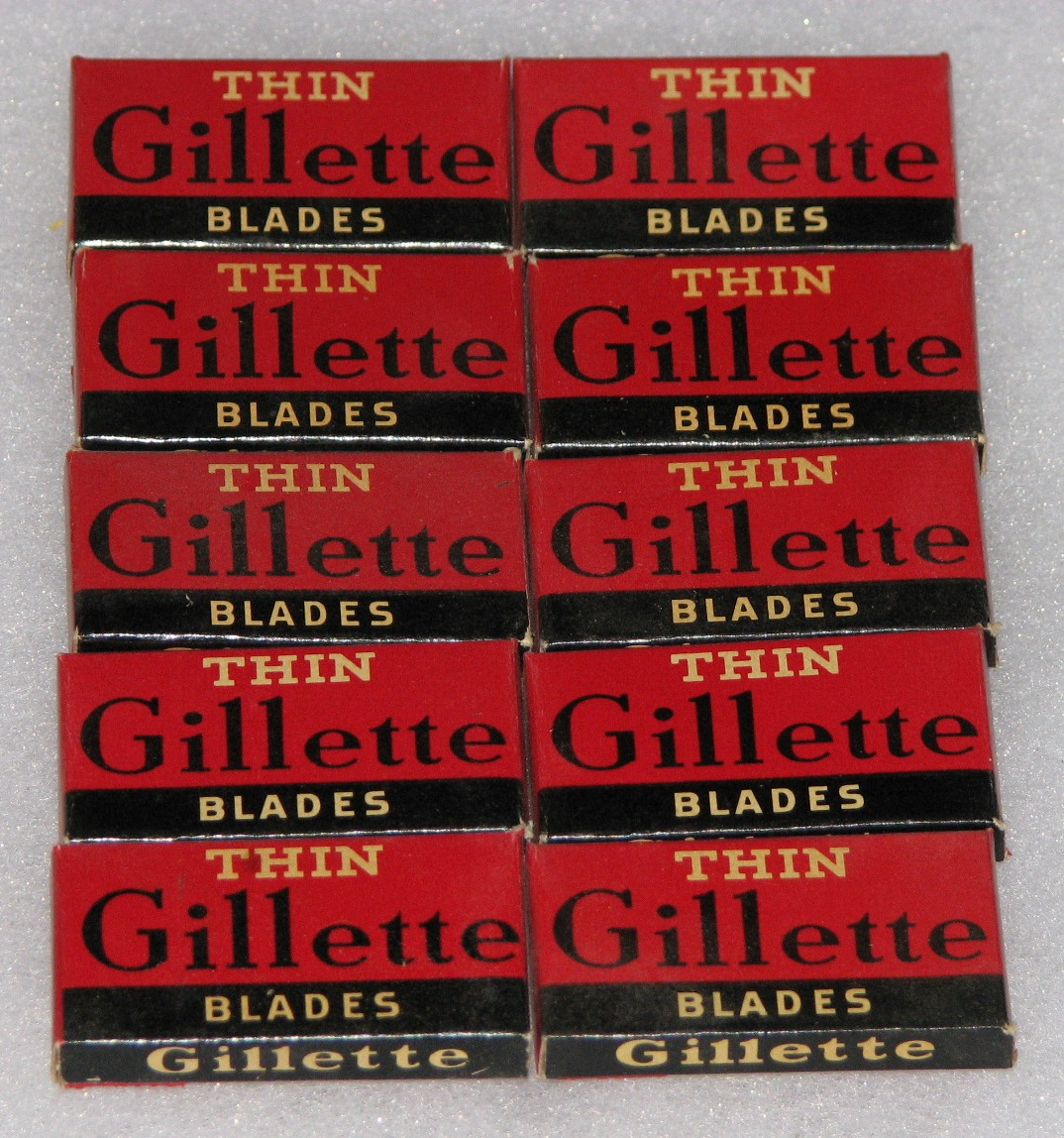 The cost per package was 15 cents -- price marked on the back of each package.